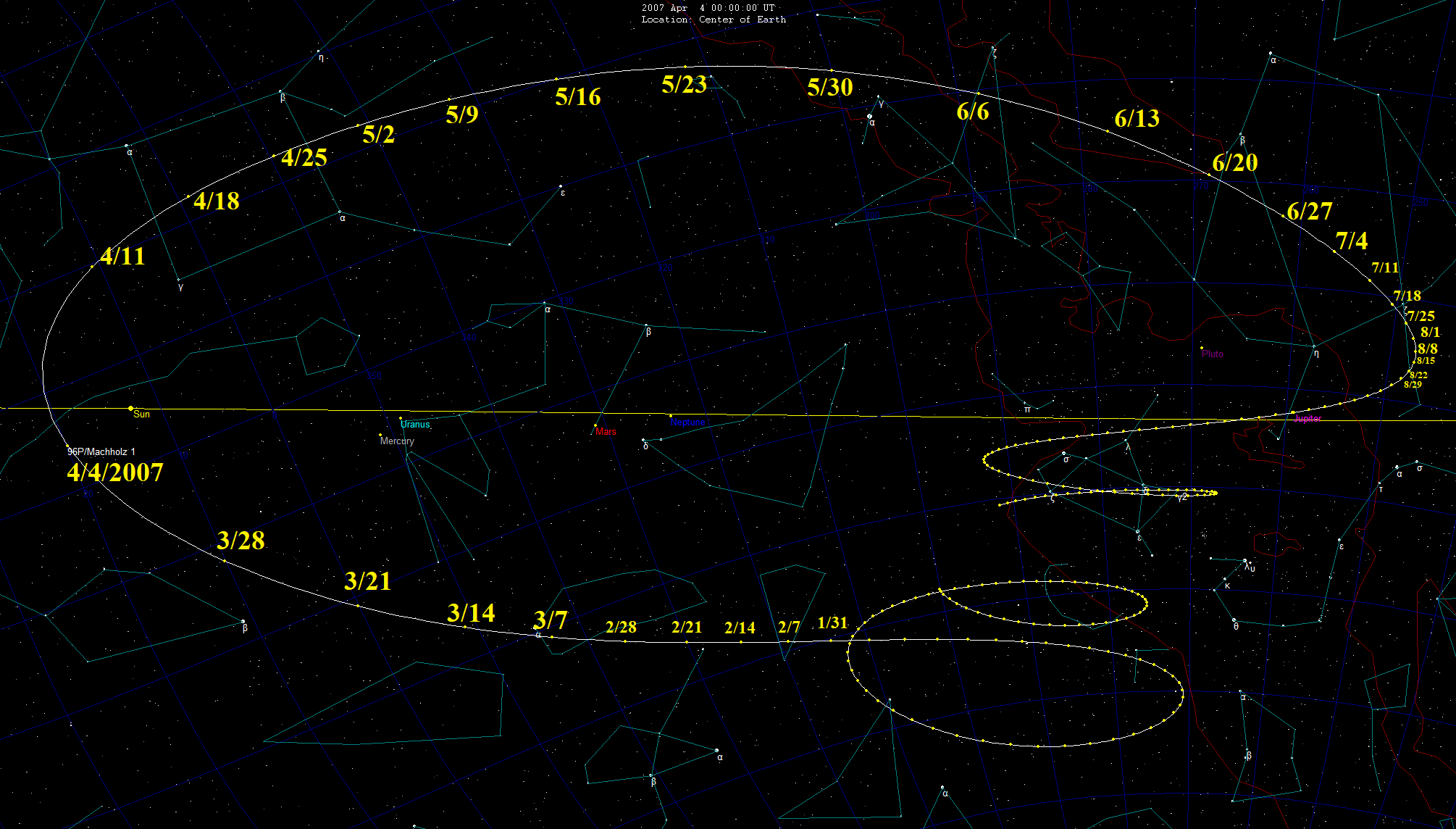 en:96P-Machholz 1 starmap for perihelion 2007